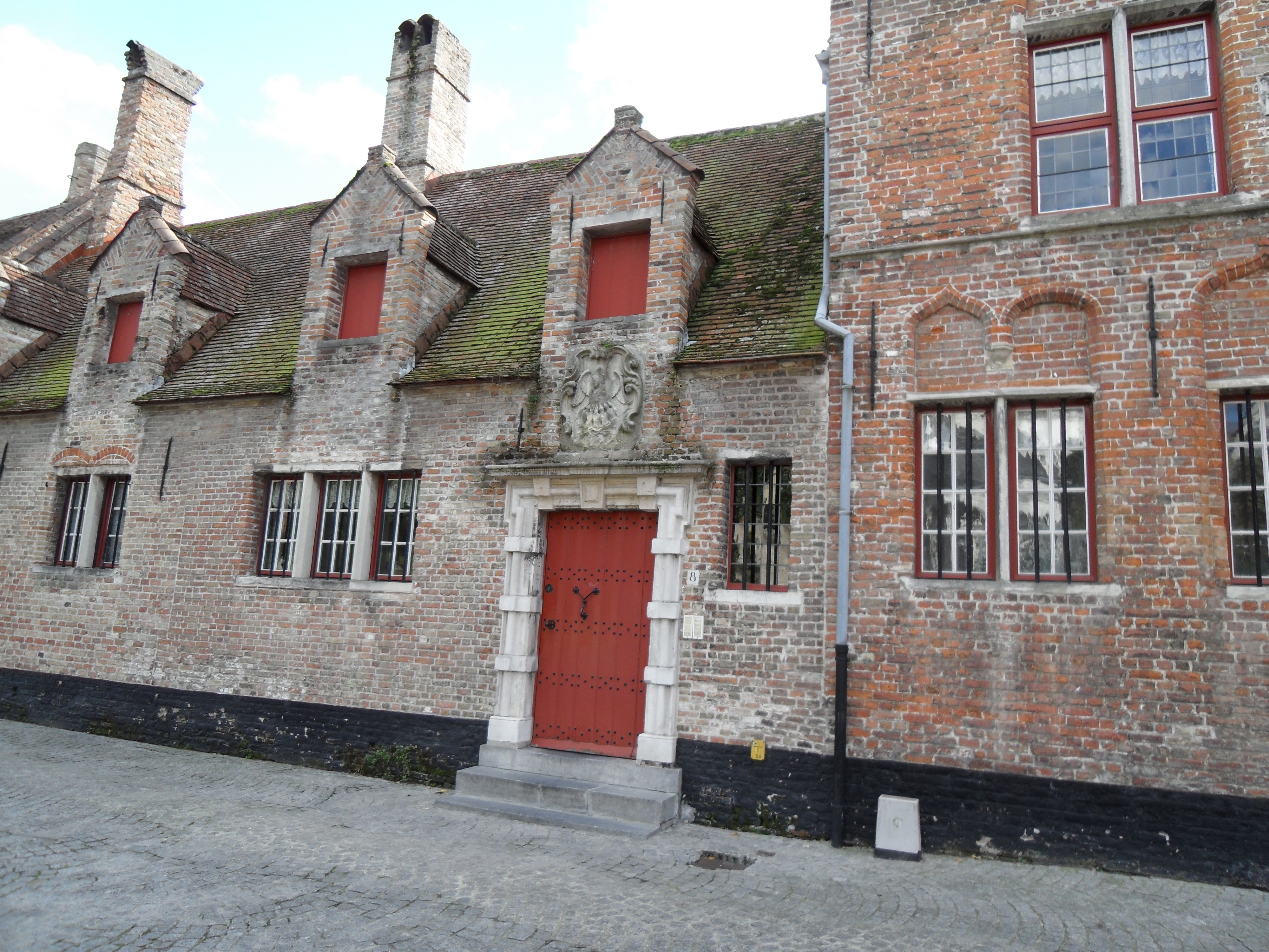 De Pelikaan in Bruges